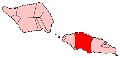 Map of Samoa showing Tuamasaga district. Made by User:Golbez.